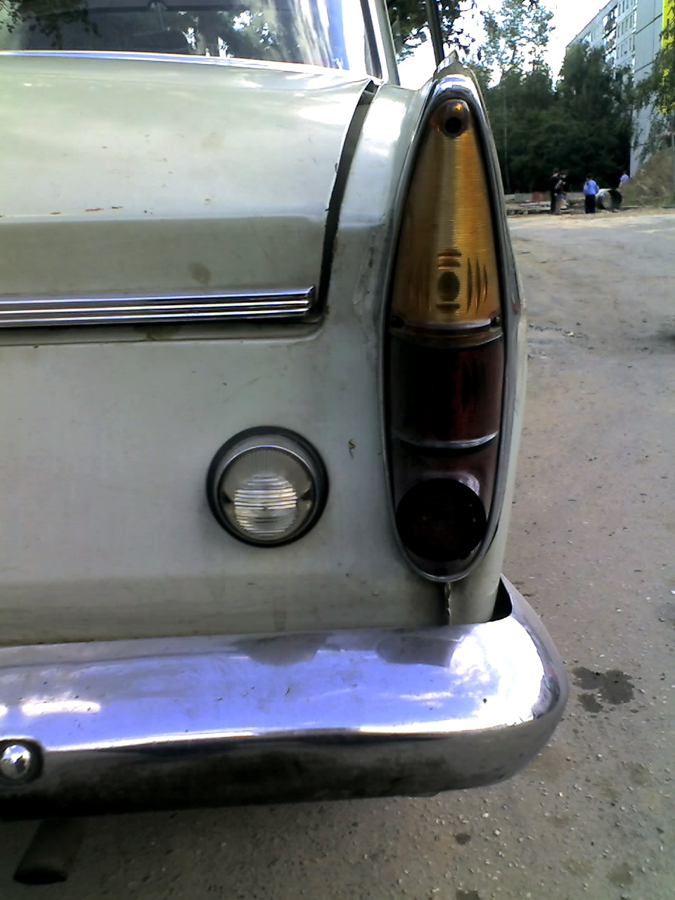 Moskvitch-408's tailfin